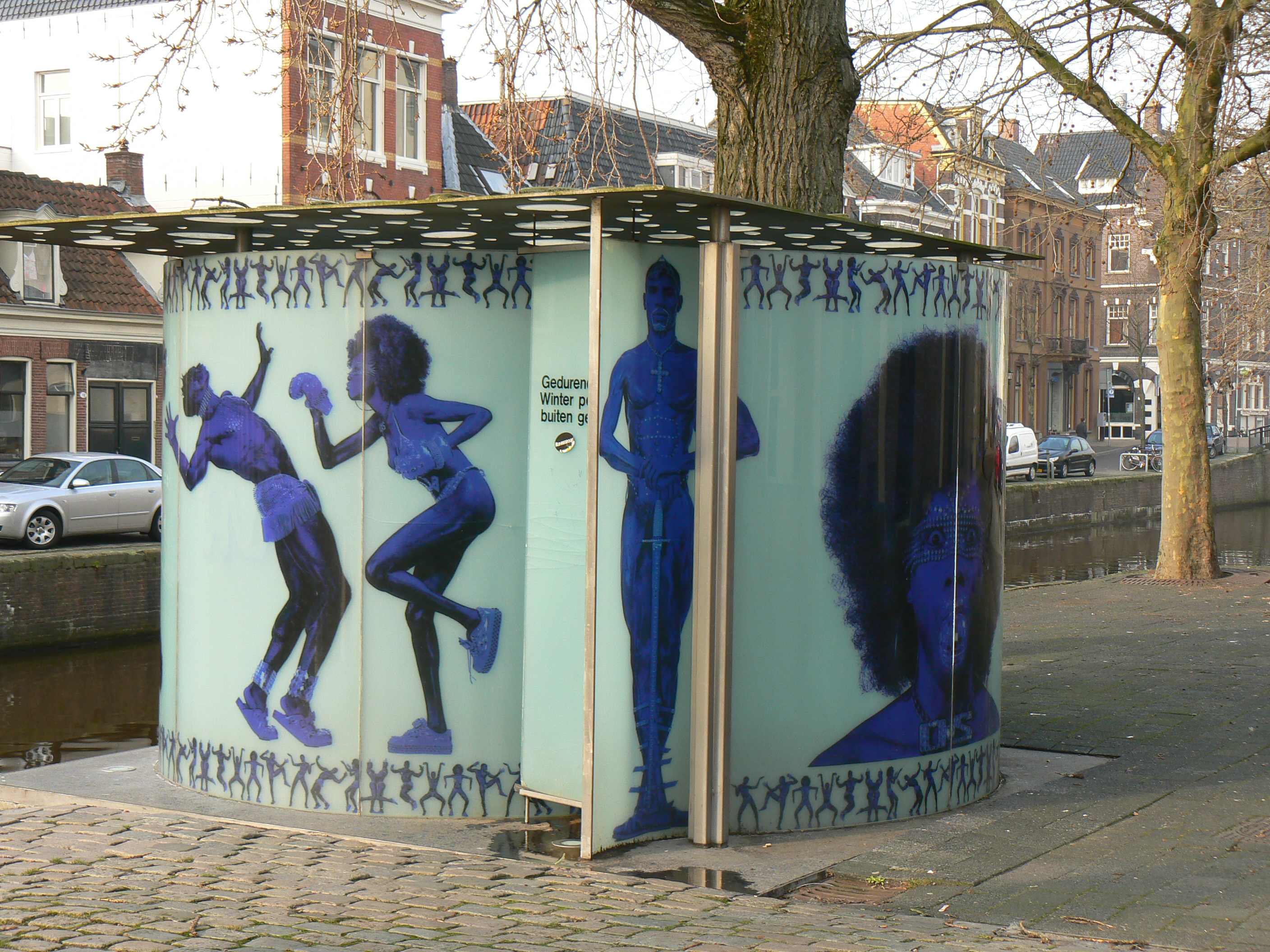 folly (street toilet) by Rem Koolhaas (OMA) and Erwin Olaf in Groningen/The Netherlands